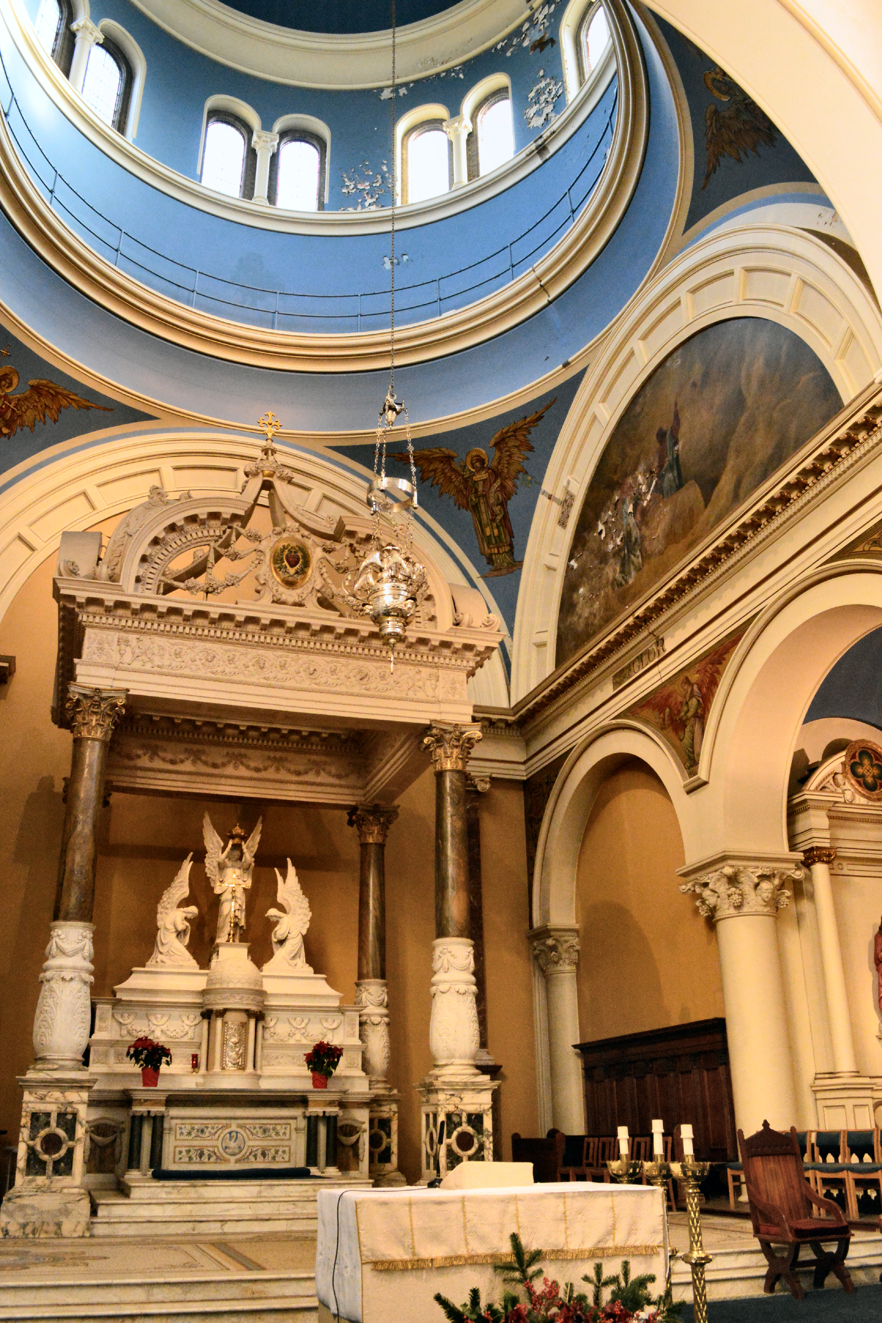 Highgate, St.Joseph’s Catholic Church, sanctuary. The forward altar of marble and sandstone was erected in 1964 by Gerald Murphy of Burles Newton & Partners. The matching ambo was installed a few years later in memory of Sylvester Ijoma Oti (died 1988).